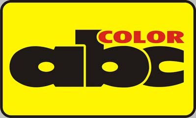 Current logo of the Paraguayan daily ABC Color